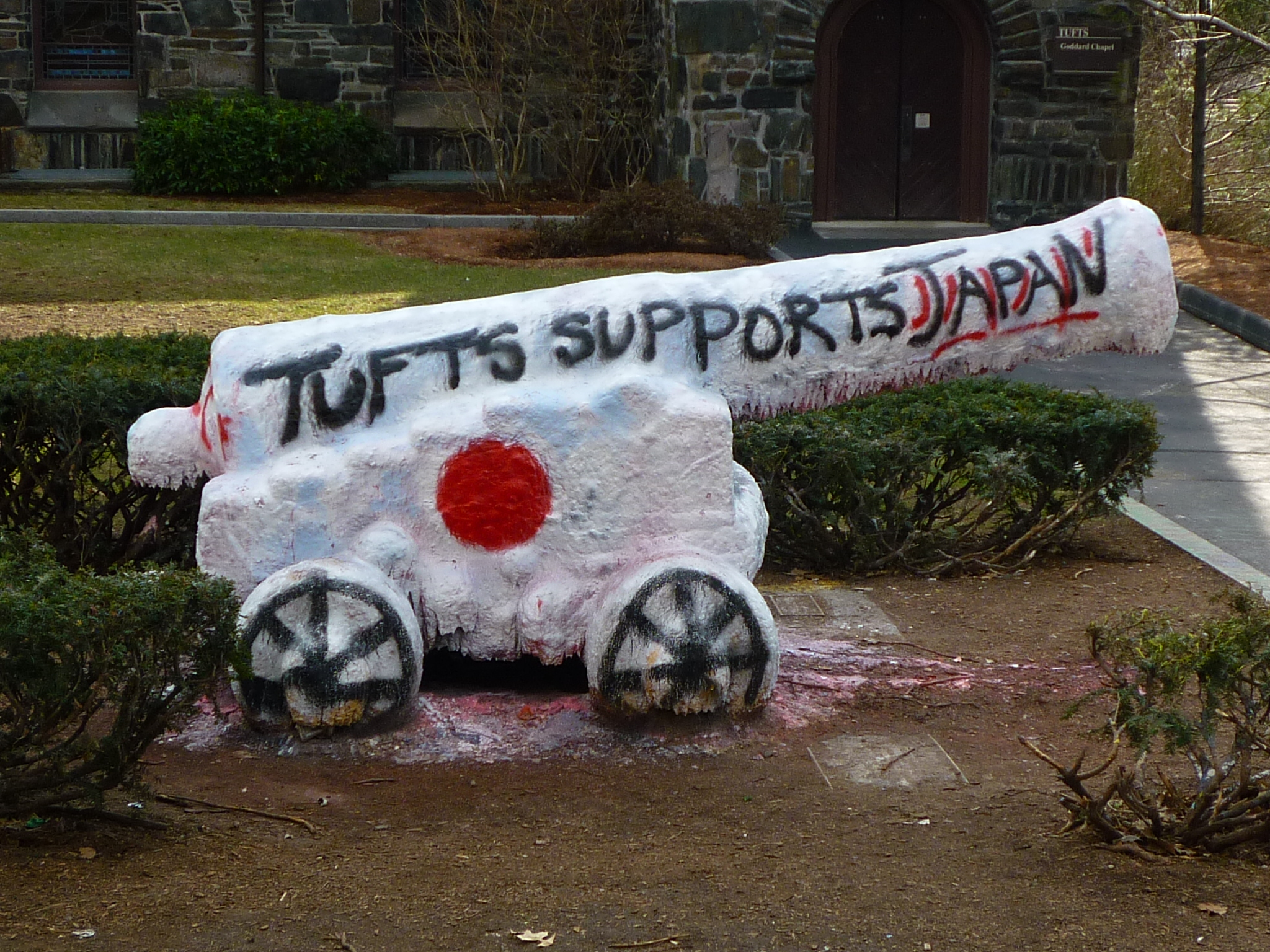 The cannon at Tufts University painted in response to the 2011 Tōhoku earthquake and tsunami.